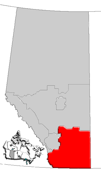 Map of Southern Alberta, Canada